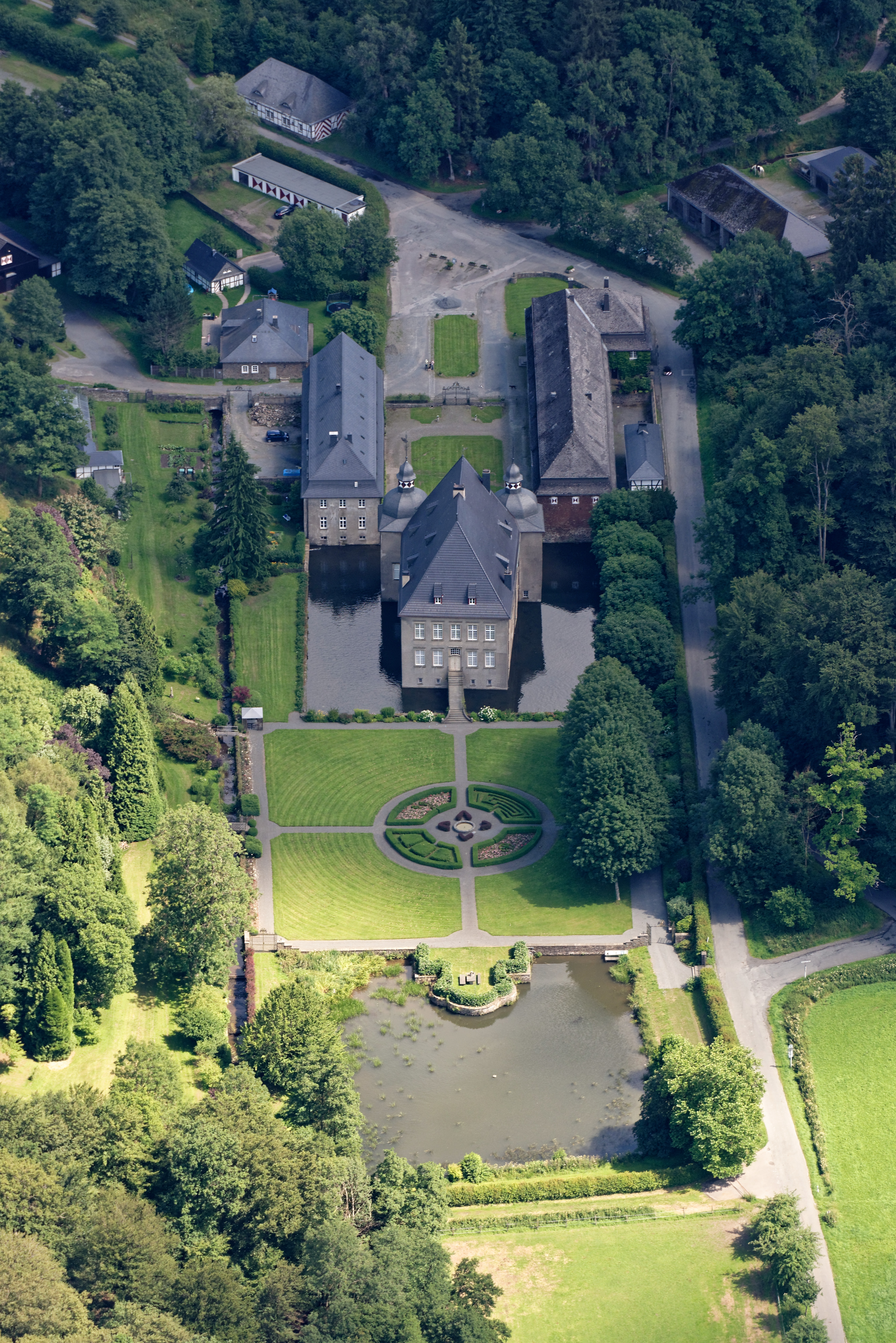 The making of this document was supported by the Community-Budget of Wikimedia Germany. Schloss Neuenhof südlich Lüdenscheid